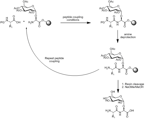 GlcNAc_Beta_Asn